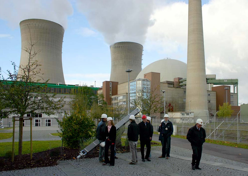 Nuclear power plant at Grafenrheinfeld in Germany.